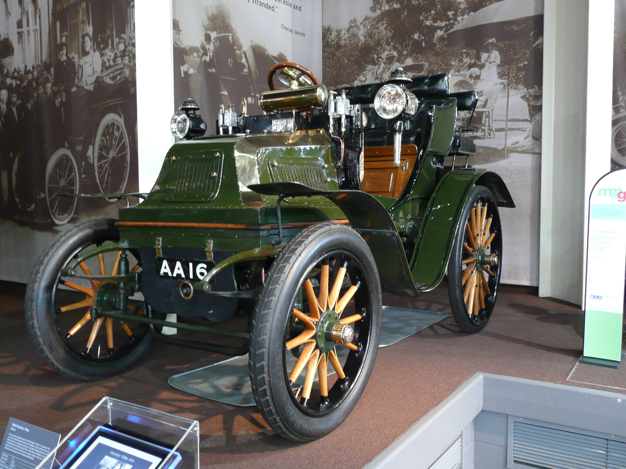 1899 Daimler 12 HP, National Motor Museum in Beaulieu. British This car was bought new by Lord Montagu's father. It was the first car to be driven into the House of Commons Yard and the first all British entry in a foreign road race, the Paris-Ostend event in which it finished third in the Tourist Class. The Prince of Wales, later King Edward VII, had one of his first ever motor rides in this car. The vehicle was restored by the Museum Workshops. Cylinders: 4 Price New: £775 Capacity: 3053cc Maximum Speed: 30mph Manufacturer: Daimler Motor Syndicate, Coventry Owner: Science Museum, London source of info